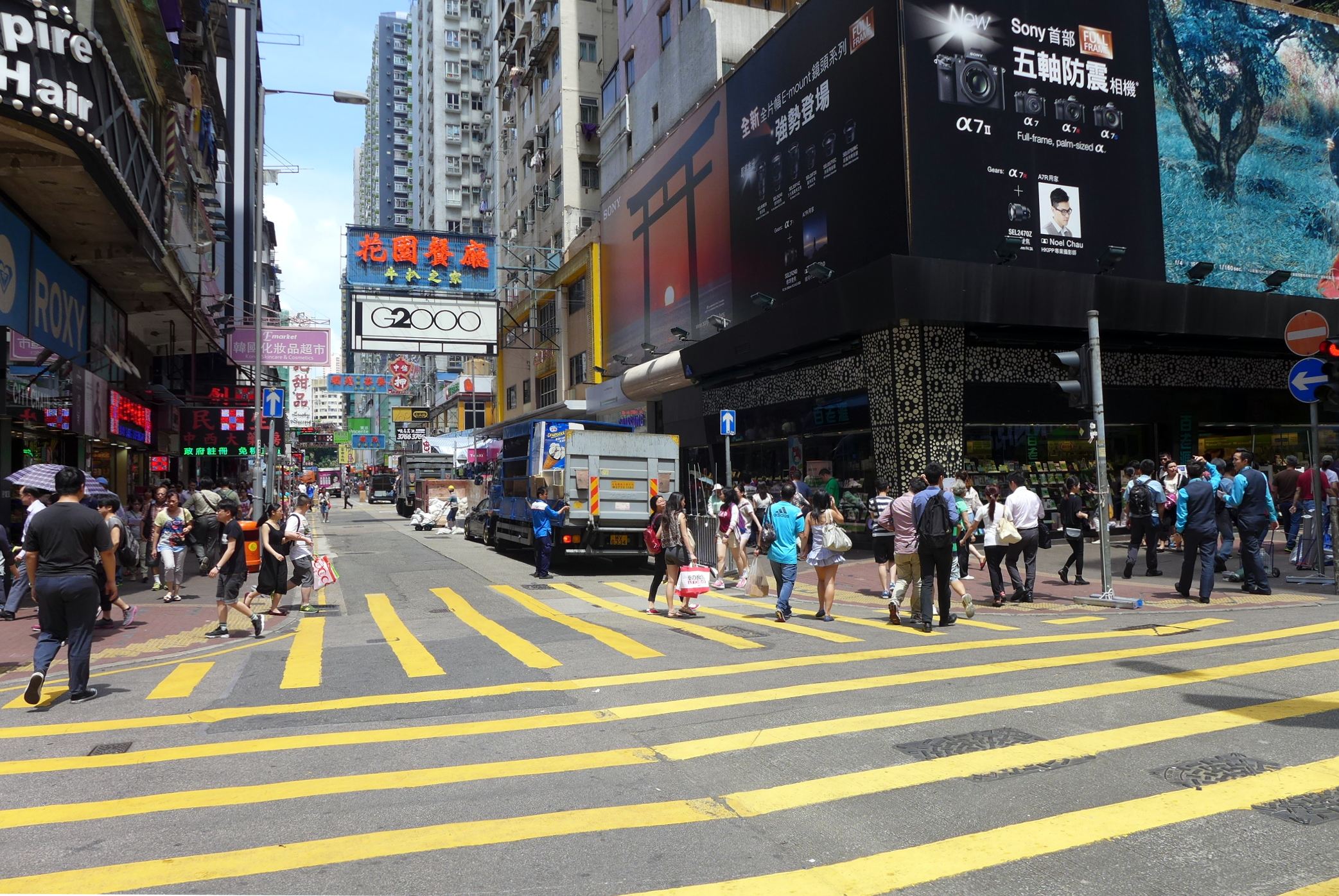 Soy Street